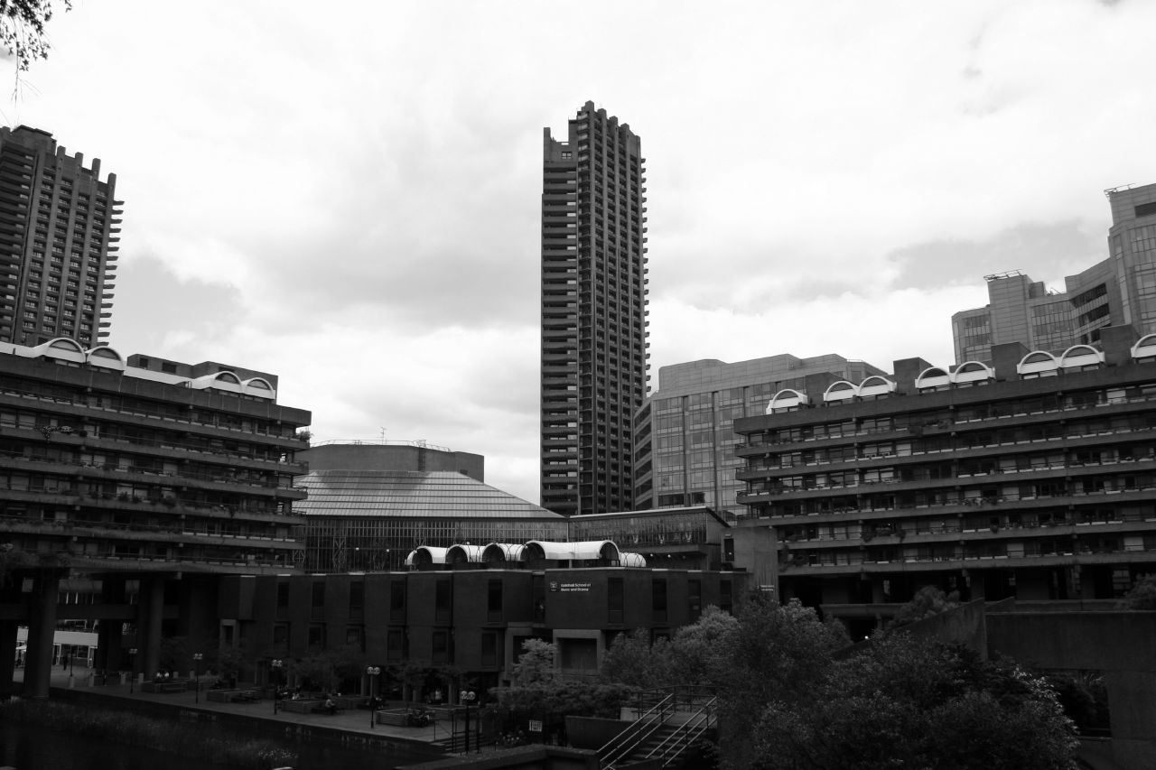 Barbican Estate